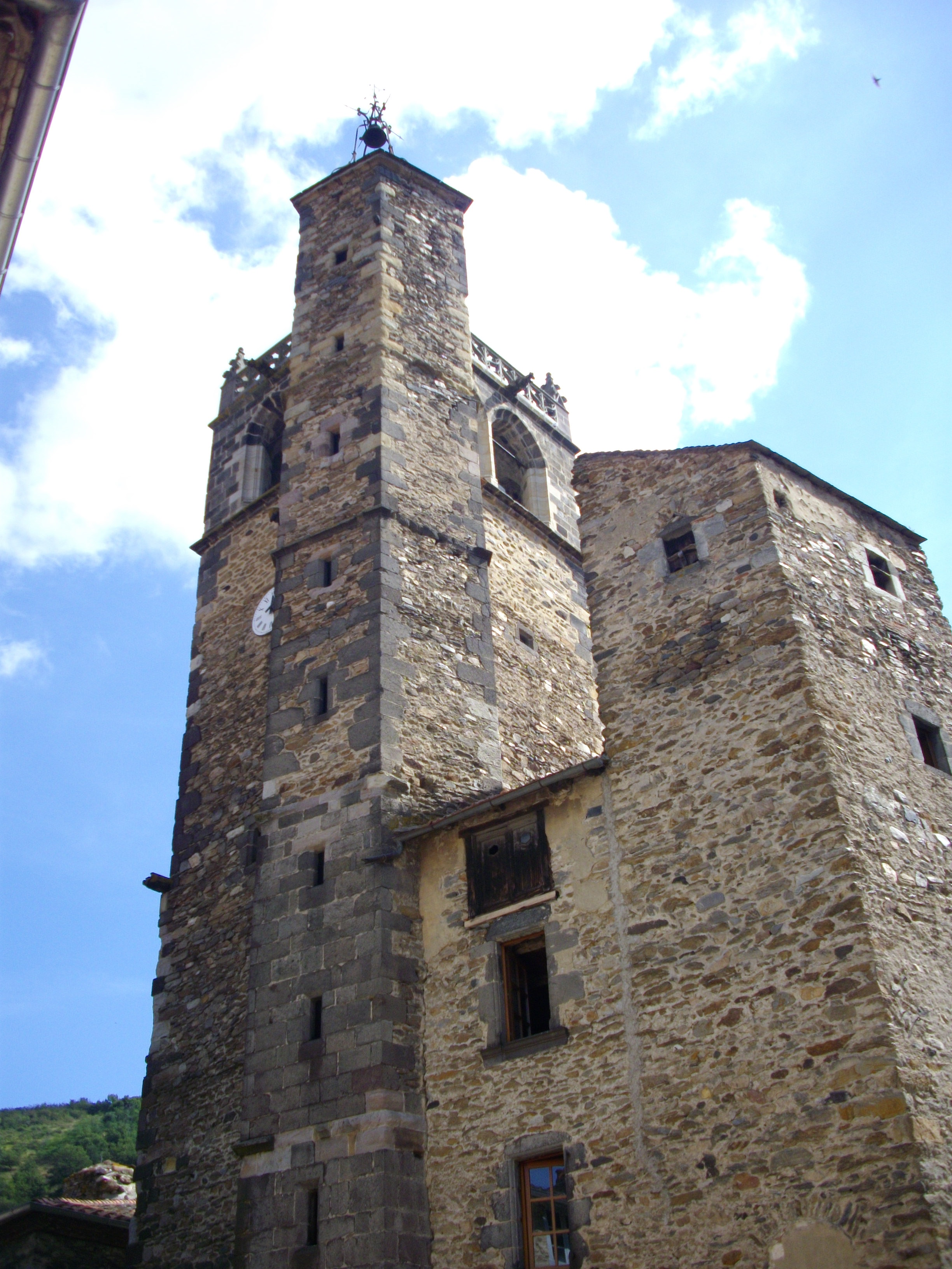 Saint Martin tower in Blesle (Haute-Loire, France)